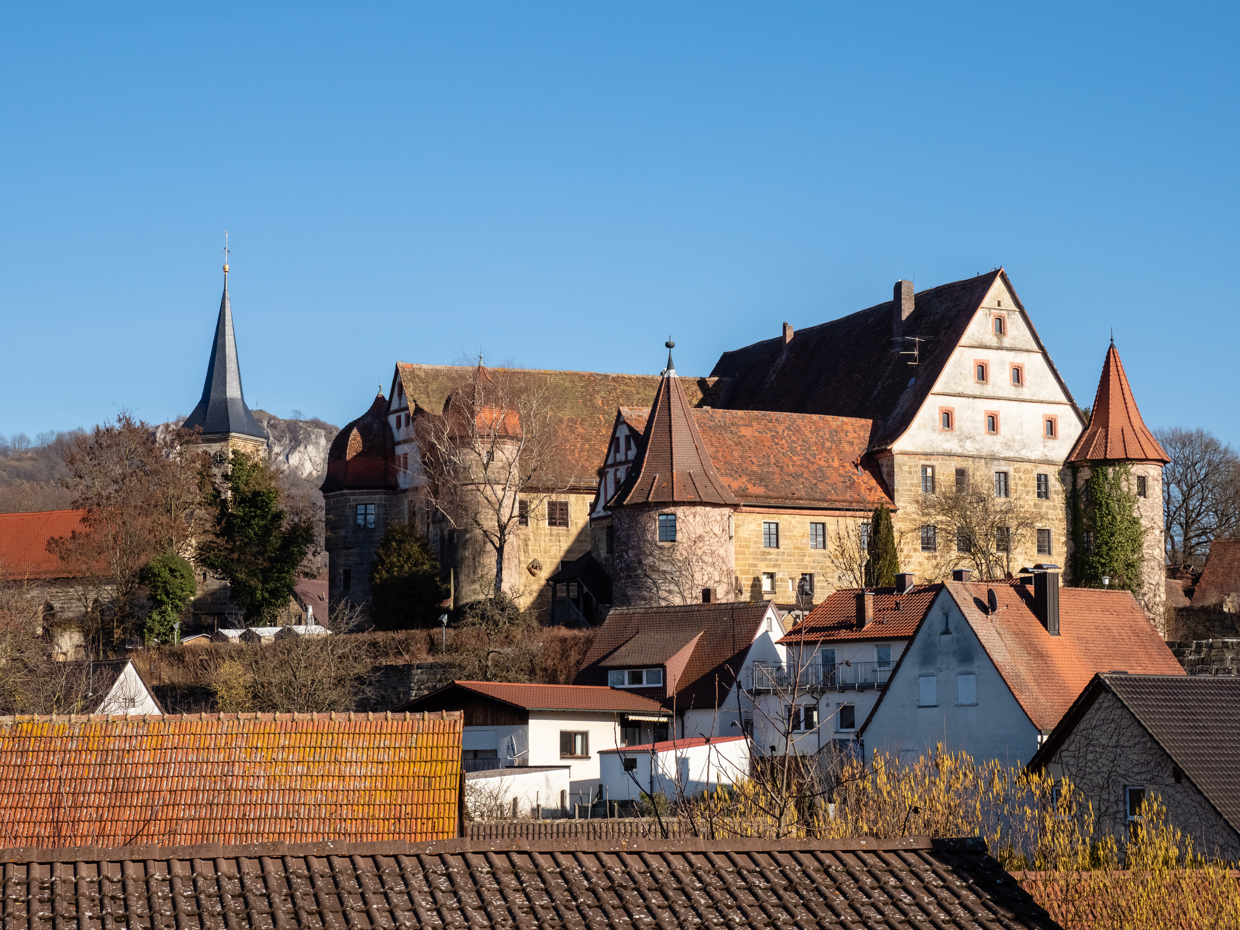 Wiesenthau Castle